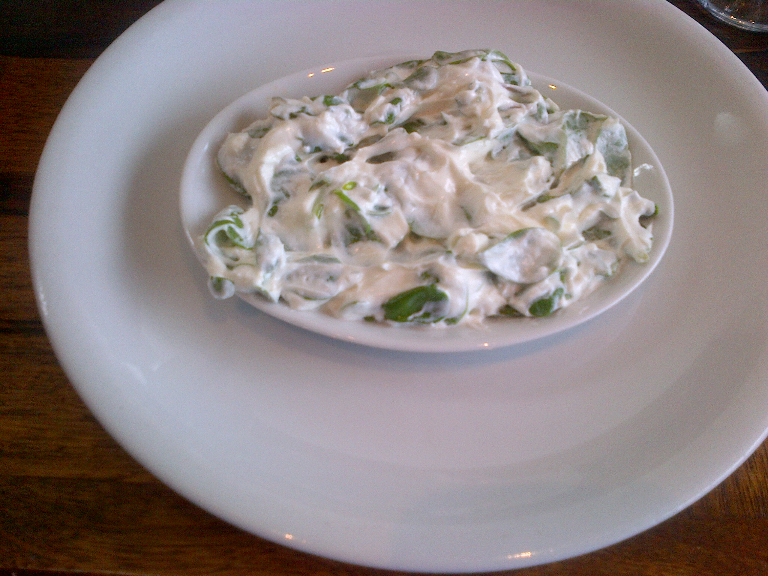 "Semizotu salatası" is a salad-meze from the Turkish cuisine.